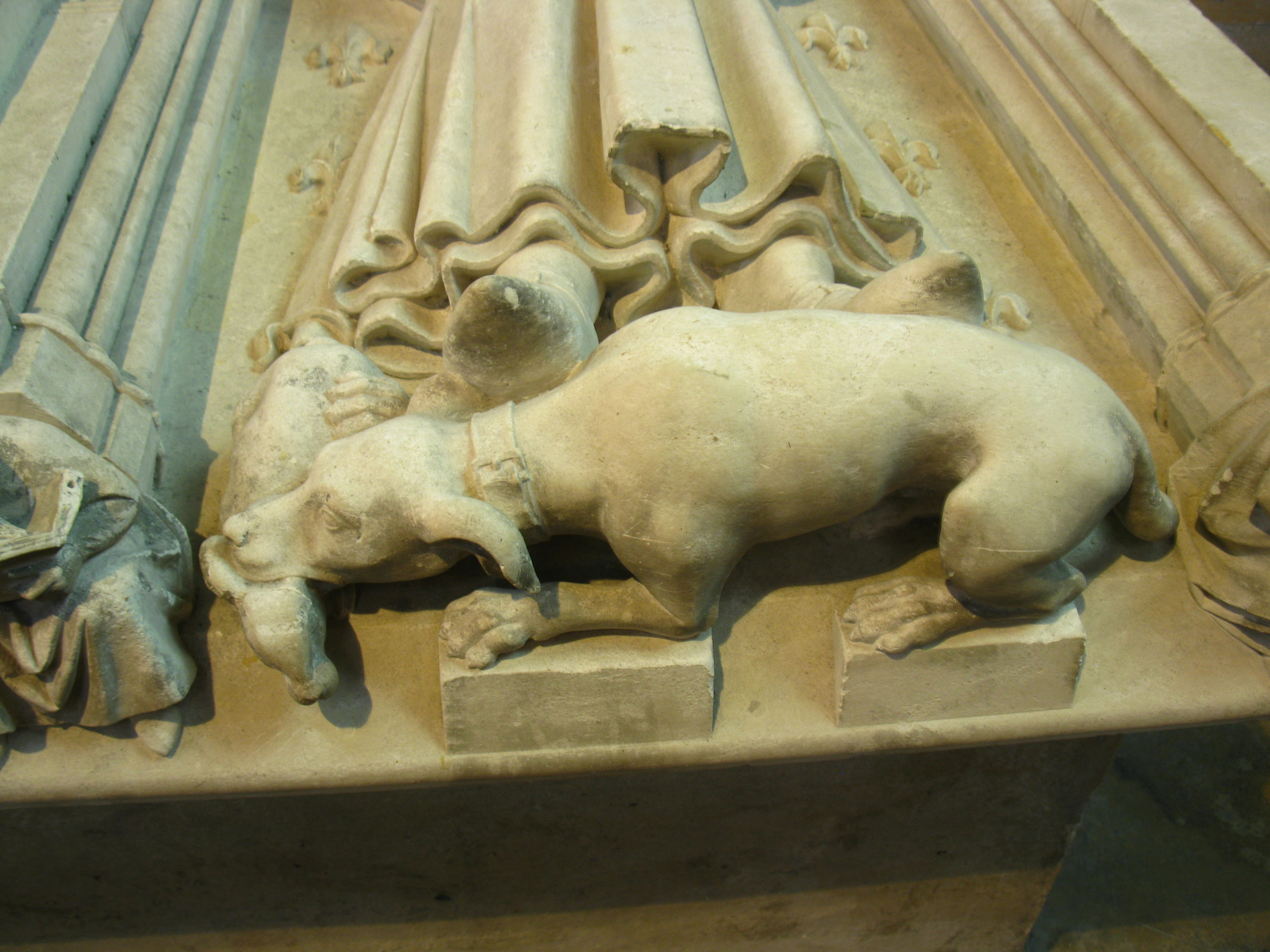 Dog killing a rabbit at the feet of Philippe of Alençon. Basilique Saint-Denis ; moulding